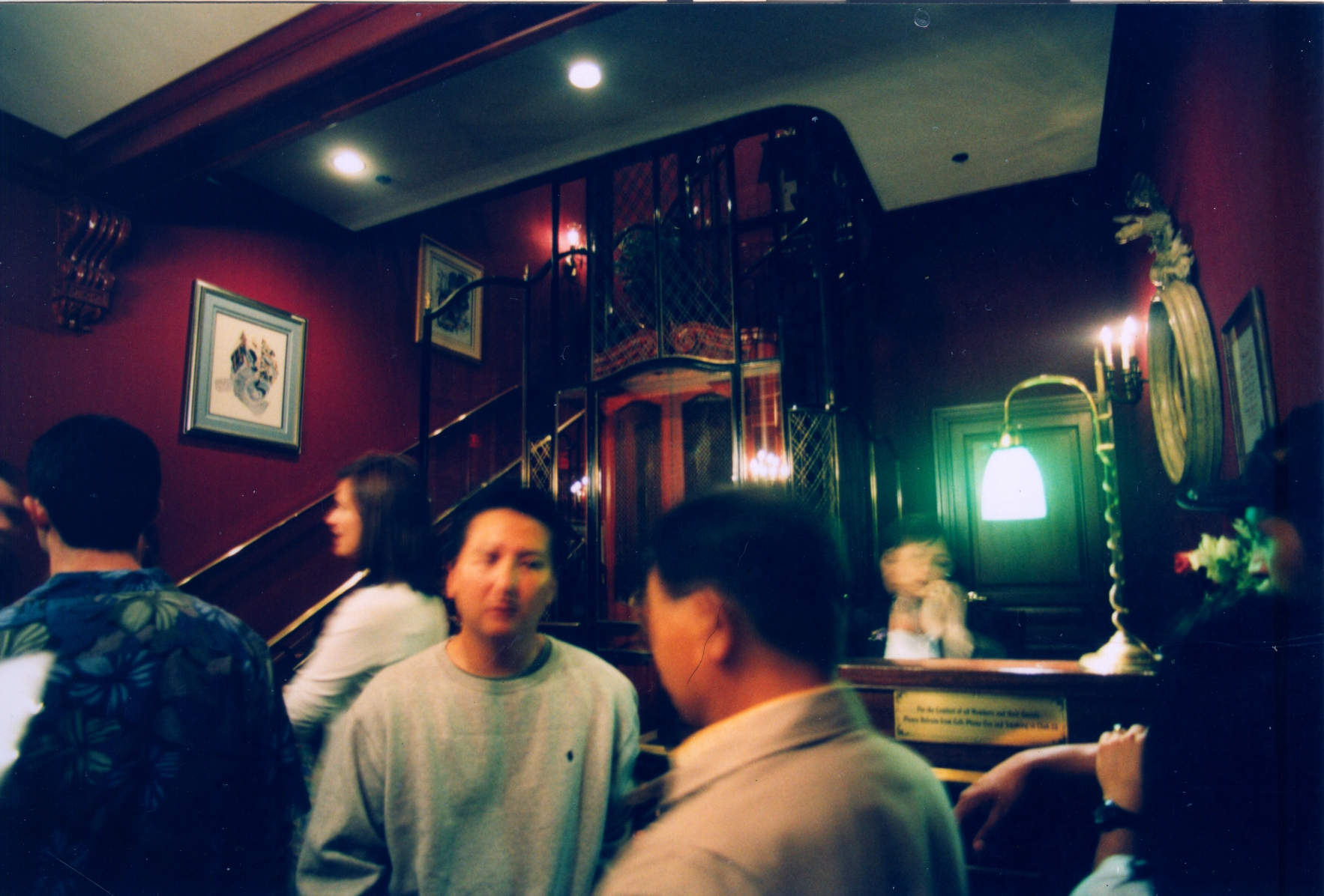 The foyer of Club 33 where members wait to be seated